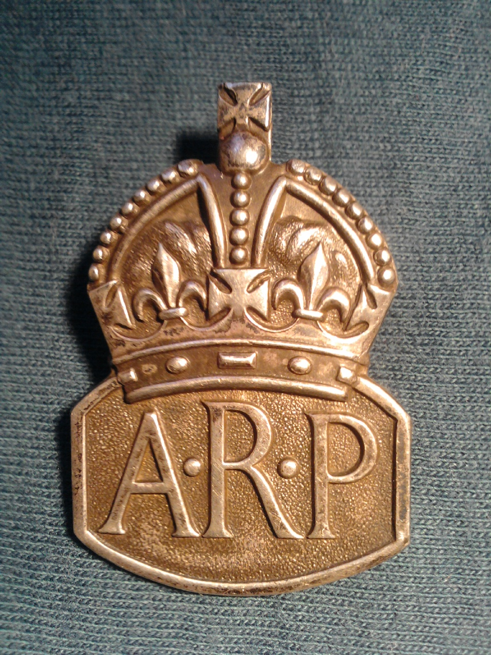 A silver ARP (Air Raid Precautions) lapel badge.